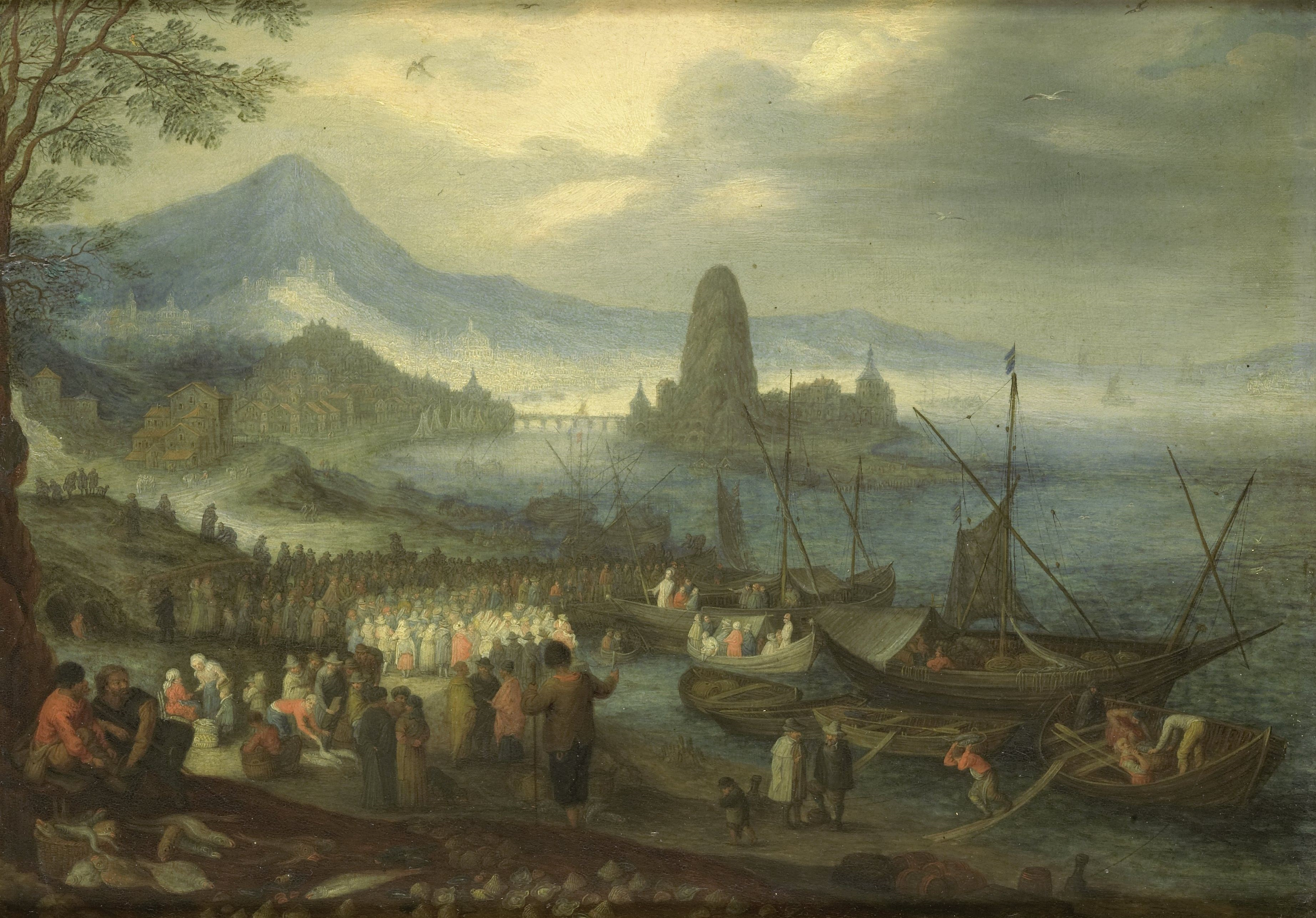 Extensive landscape with Christ standing on a fishingboat is preaching to a large crowd of people standing ashore. To the right a fishingboat is being unloaded. On the foreground all sorts of fish and shellfish are displayed.